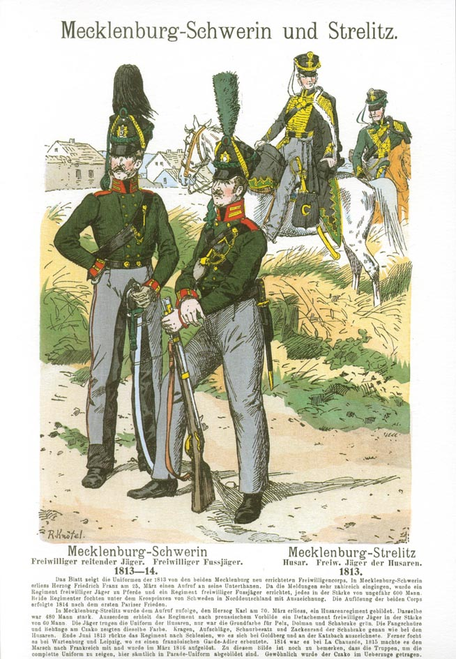 Mecklenburg-Schwerin. Mecklenburg-Strelitz. Freiwillige Jäger 1814-14